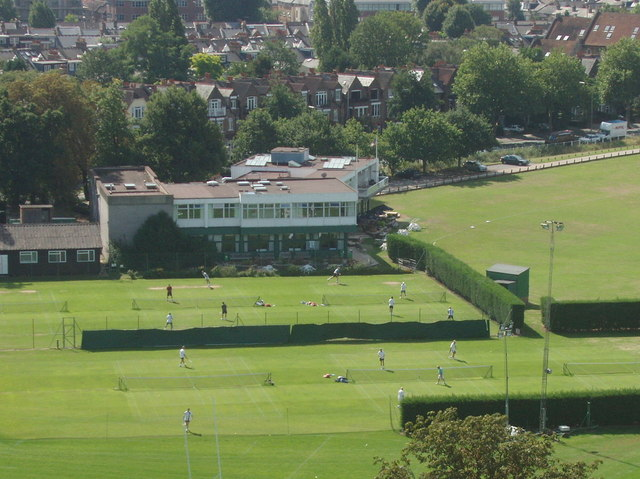 Richmond Lawn Tennis Club from Kew Gardens pagoda. On a pleasant Sunday morning play is active on all the courts of this club in the Old Deer Park, Richmond. See the club's website